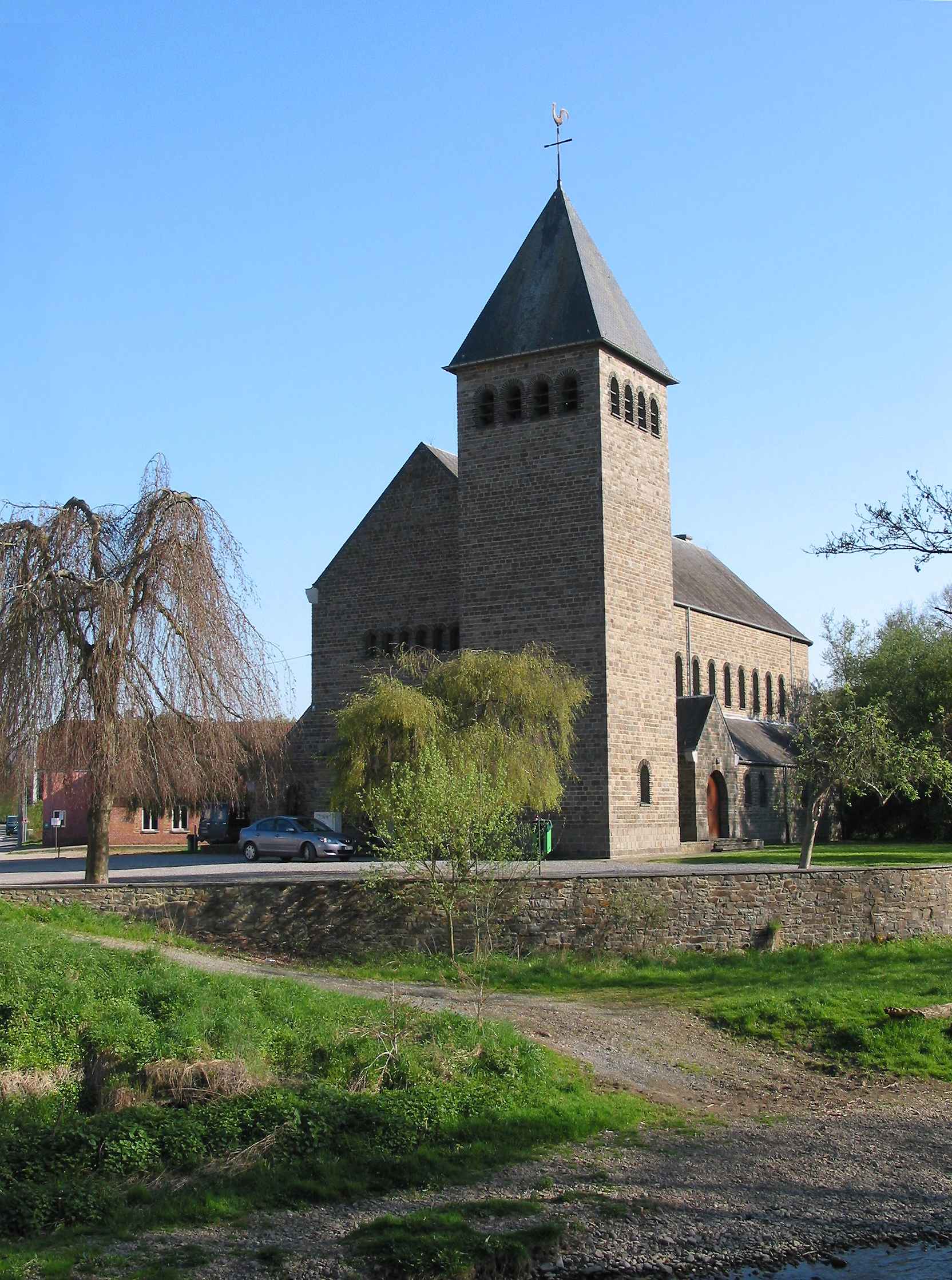 Forrières, the Sint-Martin’s church.